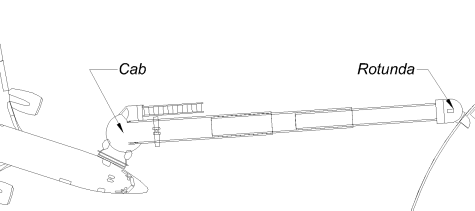 self-created in AutoCAD